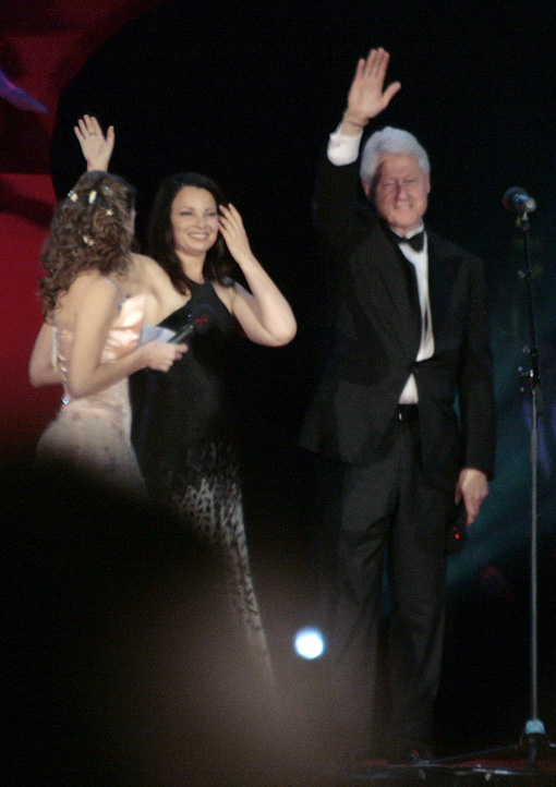 Bill Clinton und Fran Drescher with Elke Winkens at the Life Ball 2009, Rathaus, Vienna.